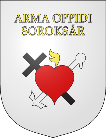 Coat of arms Budapest District XXIII